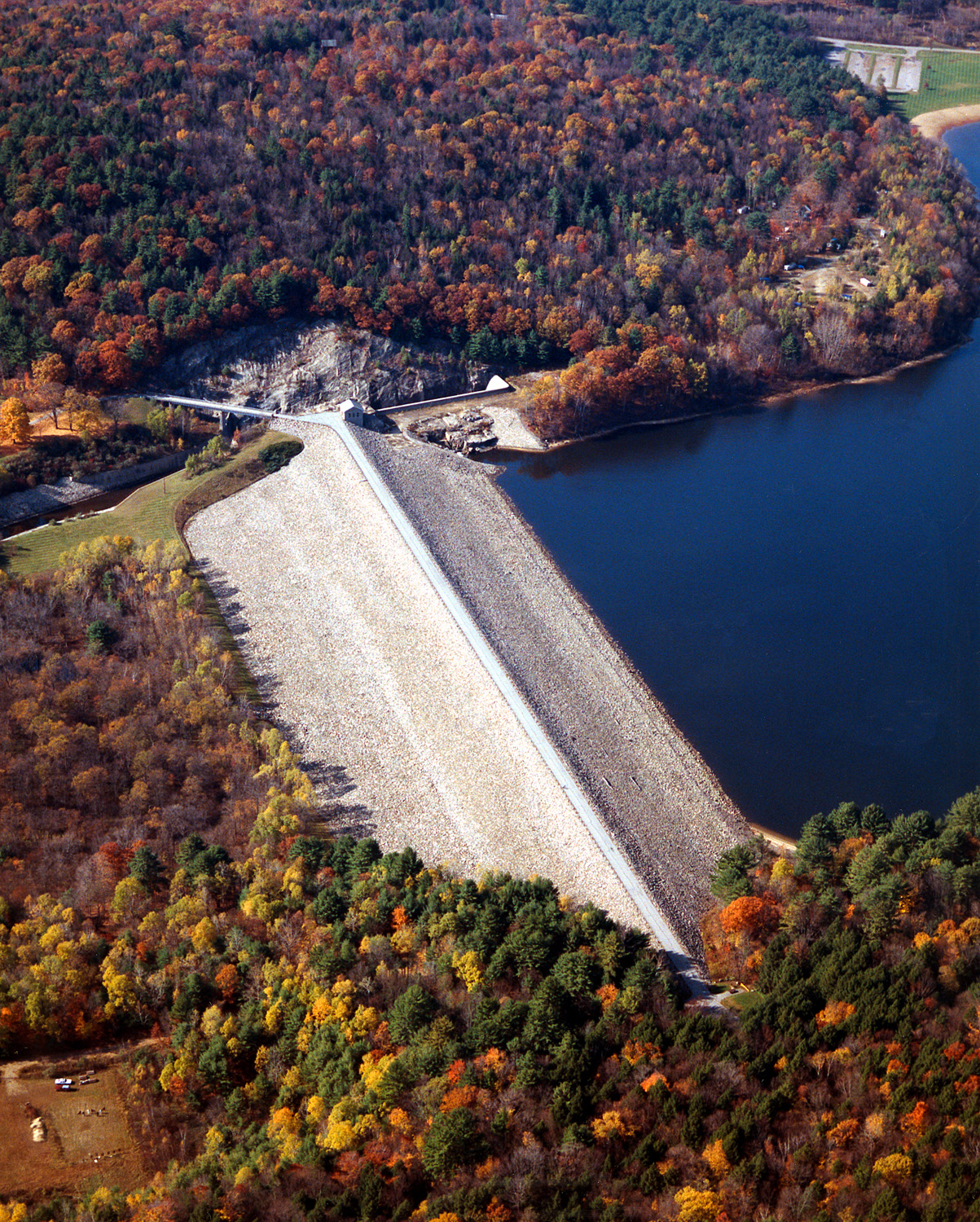 Surry Mountain Dam and Lake on the Ashuelot River in Cheshire County, New Hampshire, USA. The dam was constructed by the U.S. Army Corps of Engineers for flood control on the Ashuelot River.